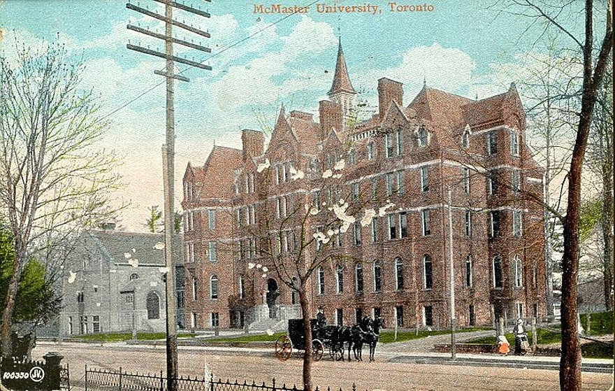 McMaster University, Toronto, Canada. The University later moved to Hamilton, Ontario, and the Royal Conservatory of Music now occupies the building.